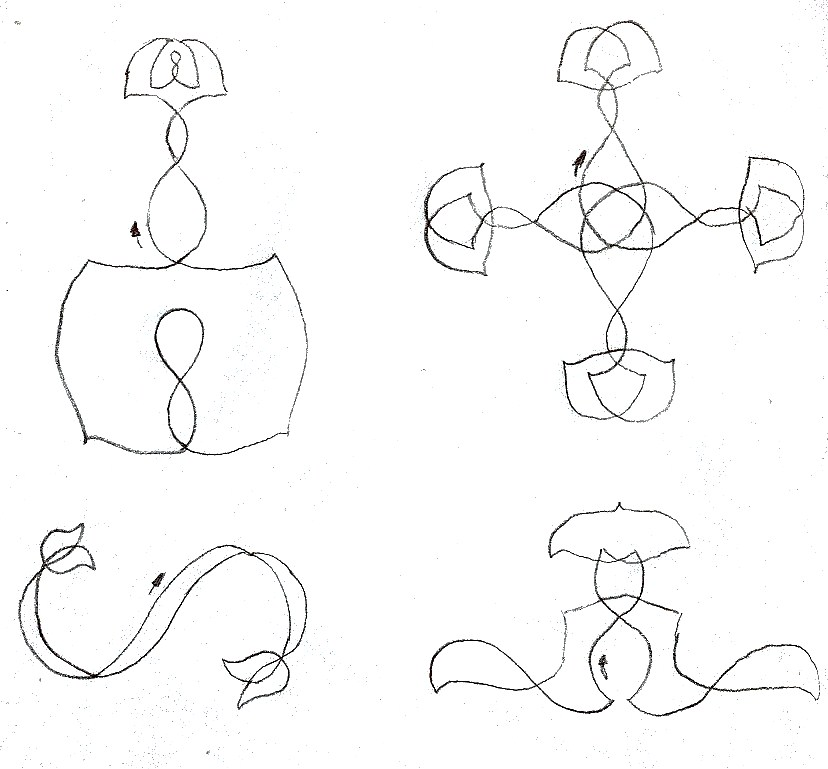 Panin's special figures skated on Olympic Games 1908 (Drawing)